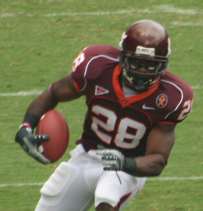 Brandon Ore of the 2007 Virginia Tech Hokies football team runs against East Carolina University